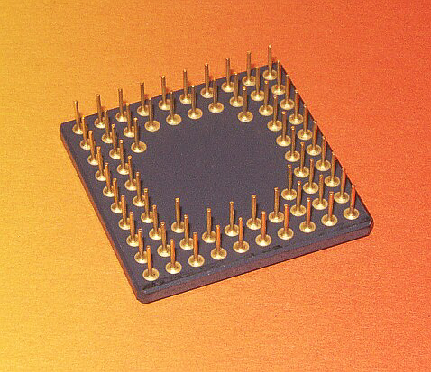 Motorola MC68HC000RC12F